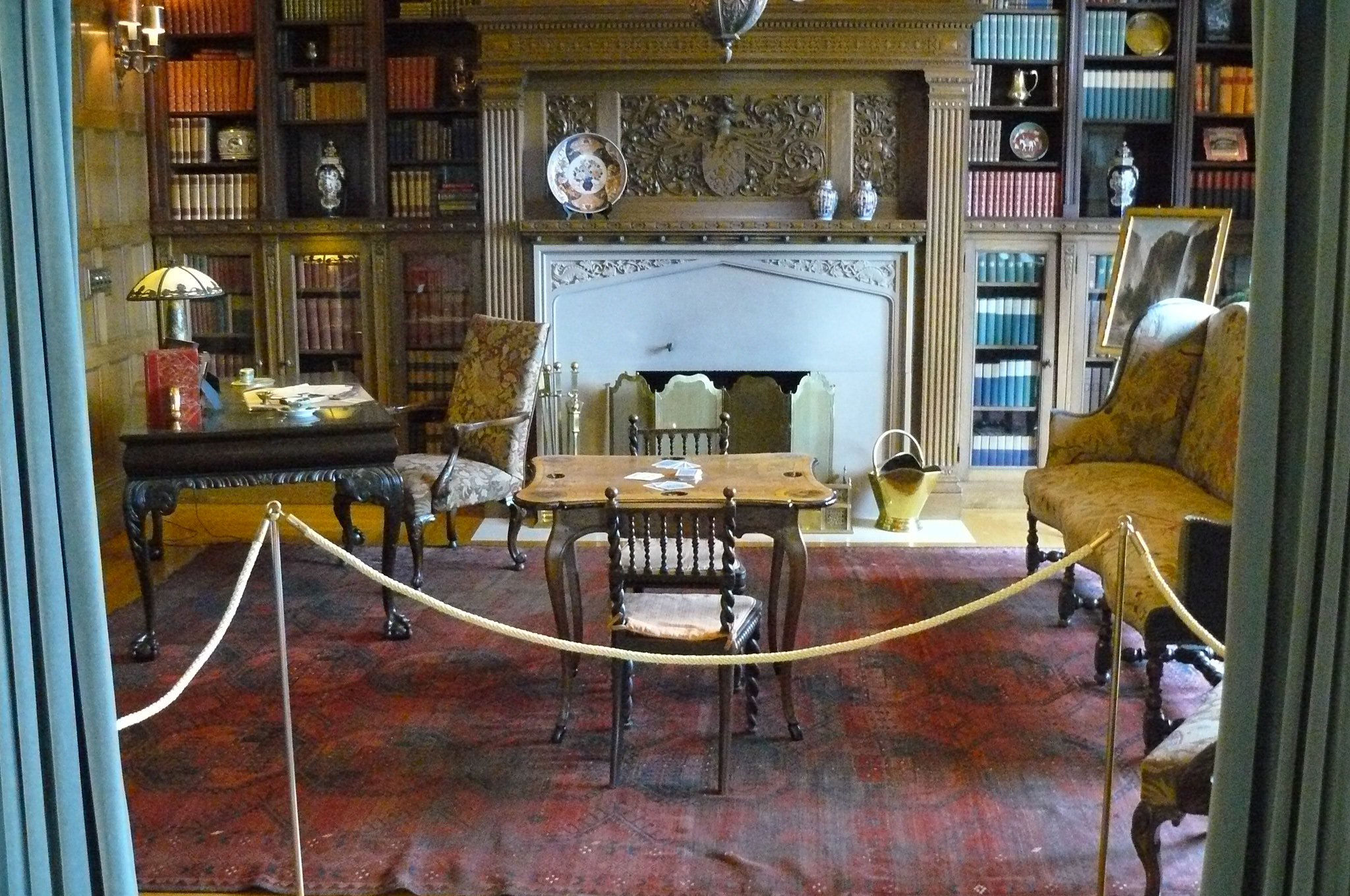 Library, Pittock Mansion, Portland (Oregon)